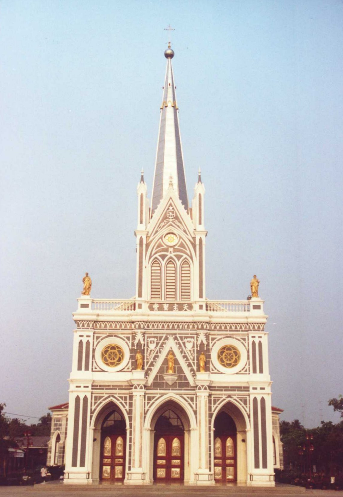 Nativity of Our Lady Cathedral, Bang Nok Khwaek, Amphoe Bang Khonthi, Samut Songkhram Province, Thailand. Cathedral of the roman catholic diocese of Ratchaburi. Photo taken by User:Ahoerstemeier in January 2006.